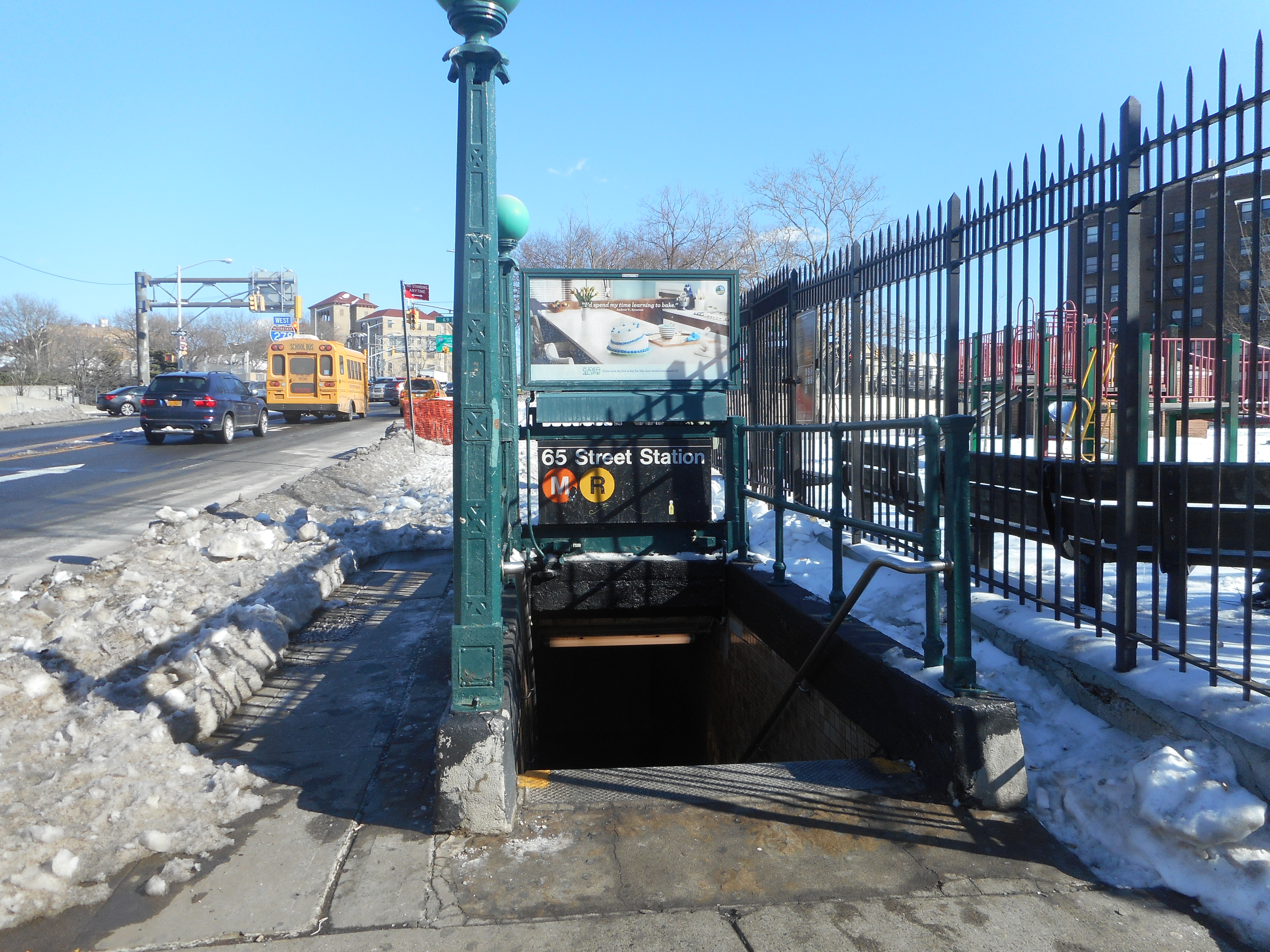 The southeast entrance to the 65th Street Subway Station on the IND Queens Boulevard Line in the Woodside section of Queens, New York City. This is on the southeast corner of 65th Street and Broadway along the Hart Playground and is facing southeast towards the on-ramp to the Brooklyn-Queens Expressway. The station is for M and R trains, though E trains do stop here late at night.